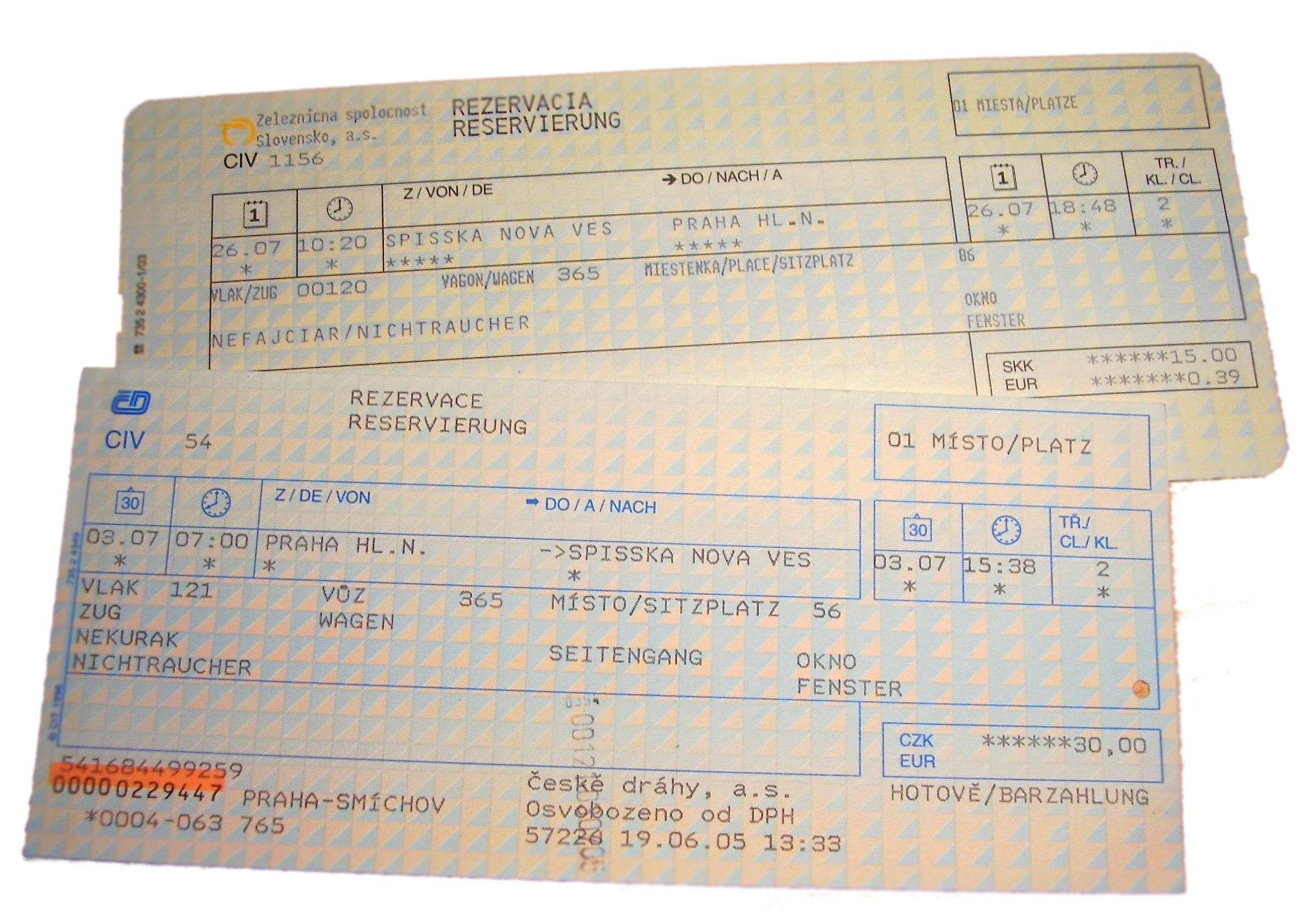 Reservations for EC/EX train Košičan from year 2005; ZSSK (up), ČD (down)